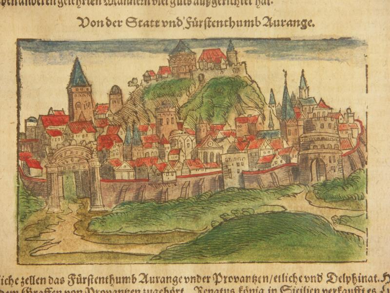 Sebastian Münster (1488-1552) was a German cartographer, cosmographer, and Hebrew scholar whose Cosmographia (1544; "Cosmography") was the earliest German description of the world and a major work in the revival of geographic thought in 16th-century Europe. Altogether, about 40 editions of the Cosmographia appeared between 1544 and 1628; Münster was a major influence on his subject for over 200 years. Münster acquired the material for his book in three ways. He used all available literary sources. He tried to obtain original manuscript material for description of the countryside and of villages and towns. Finally, he obtained further material on his travels (primarily in south-west Germany, Switzerland, and Alsace). Cosmographia not only contained the latest maps and views of many well-known cities, but also included an encyclopaedic amount of detail about the known -- and unknown -- world, and was undoubtedly one of the most widely read books of its time. Aside from the well-known maps present in the Cosmographia, the text is thickly sprinkled with vigorous views: portraits of kings and princes, costumes and occupations, habits and customs, flora and fauna, monsters, wonders, and horrors.